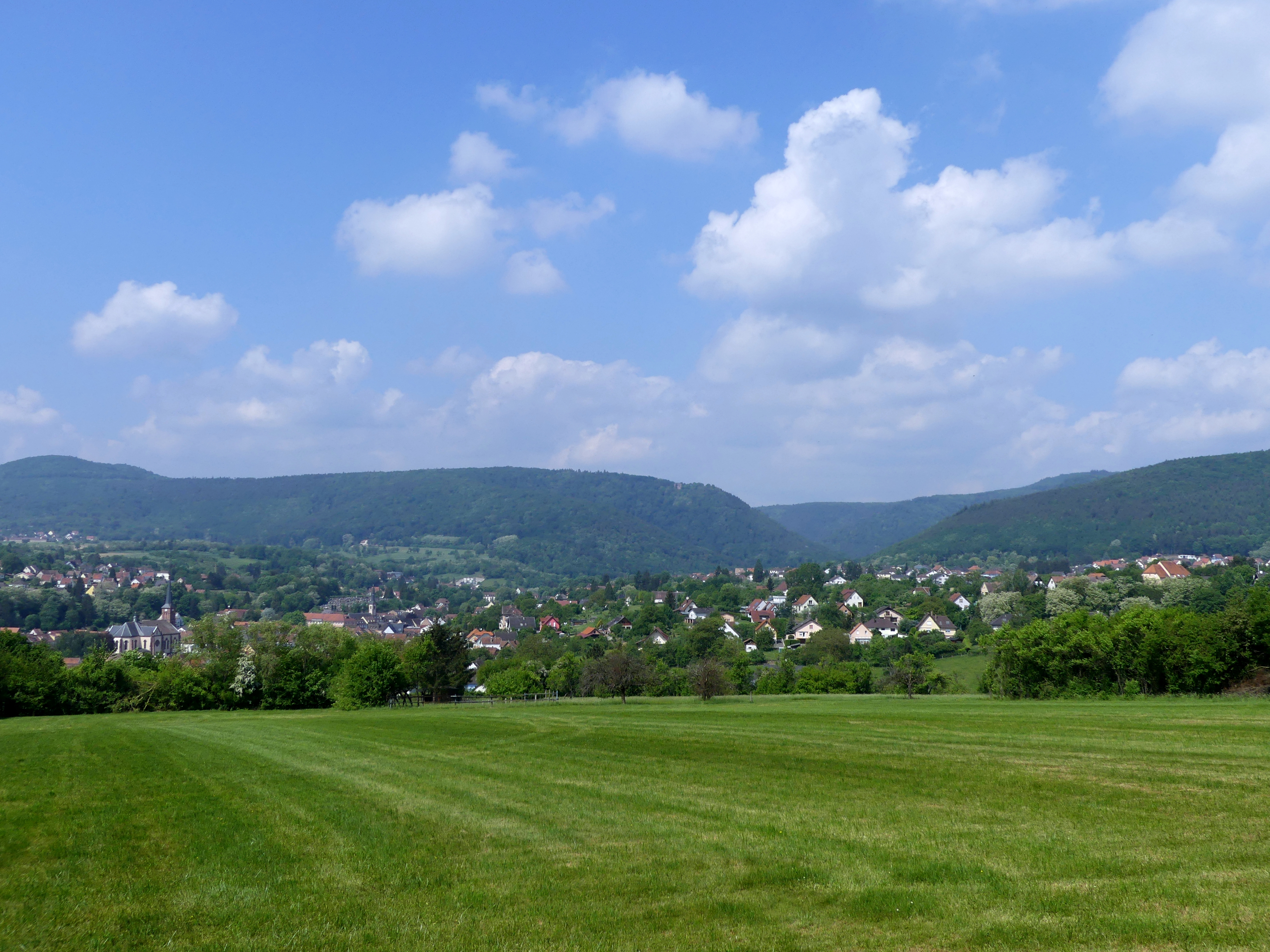 Remote sight of Niederbronn-les-Bains city, at the foot of the Northern Vosges mountain range, in Bas-Rhin, Alsace, France.